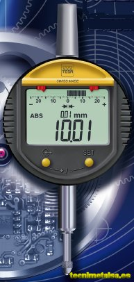 Comparador de reloj digital.